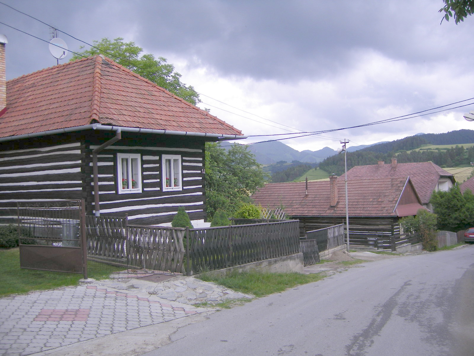 Záborie - street view